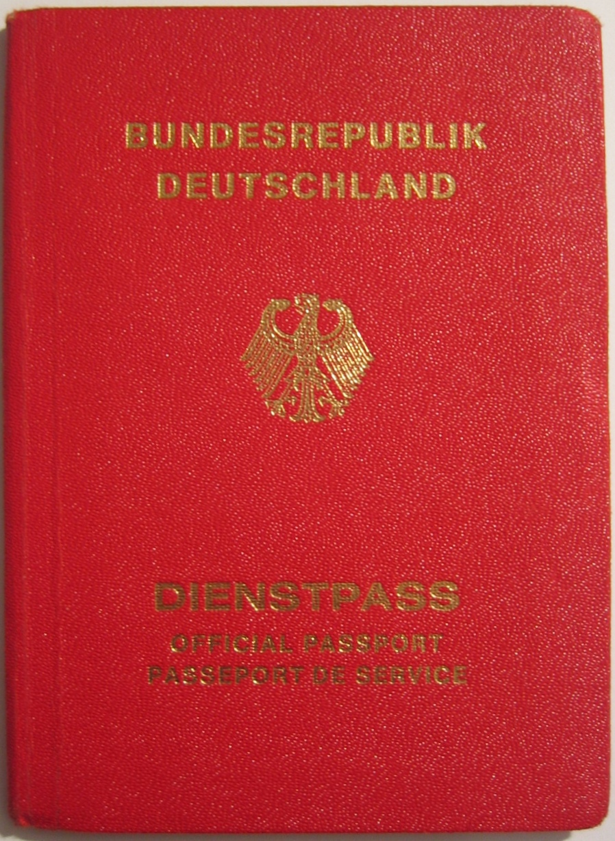 Official passport